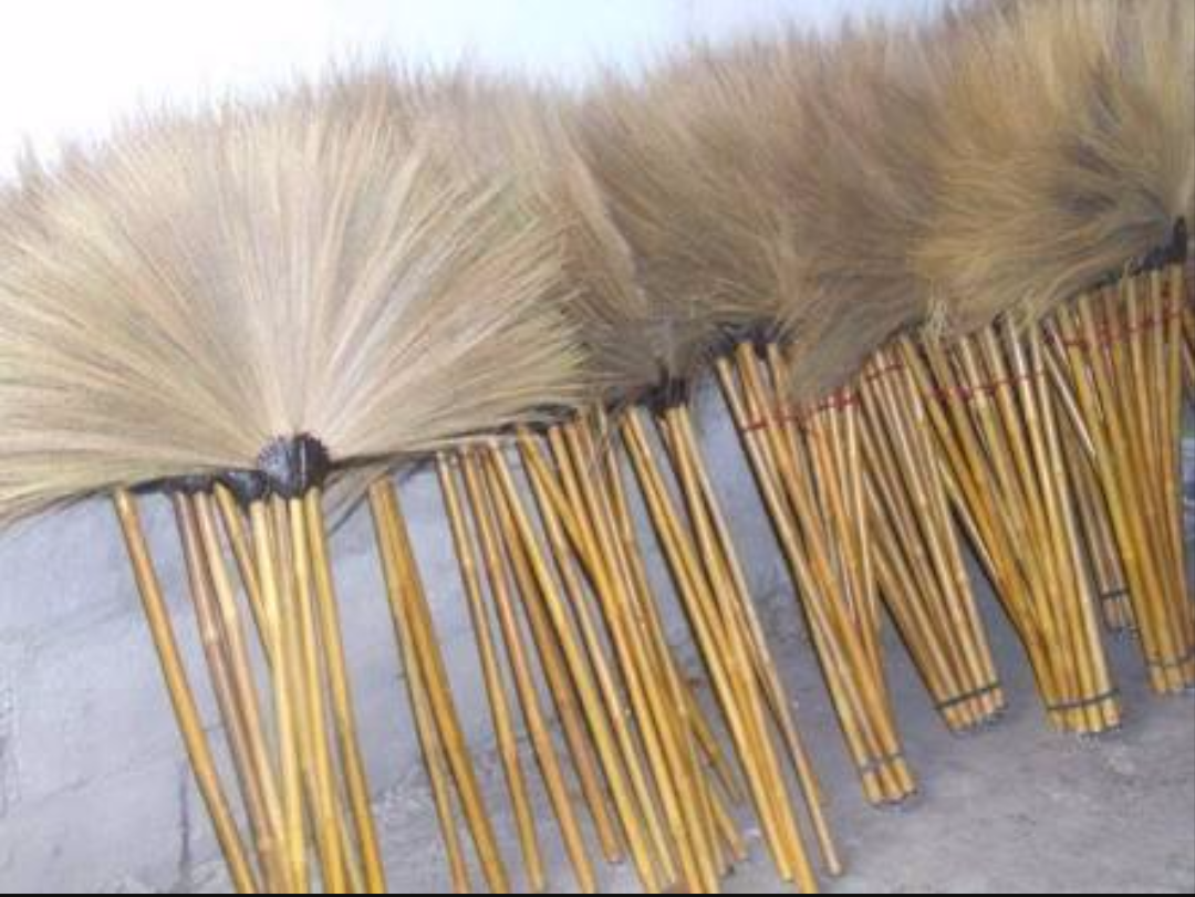 Ban Wang Din